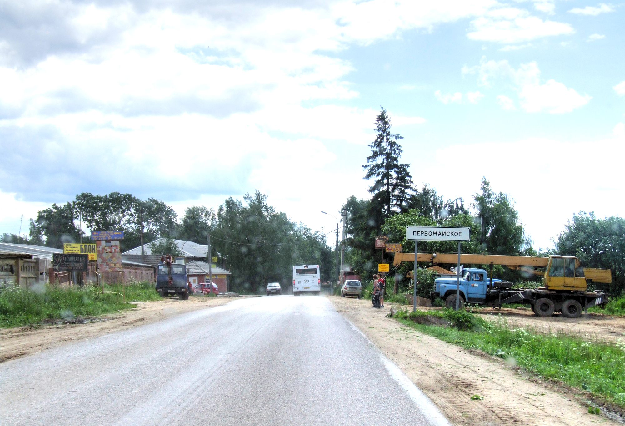 Entering Pervomaiskoye (Troitsk district of Moscow, formerly Naro-Fominskiy district of Moscow Oblast)